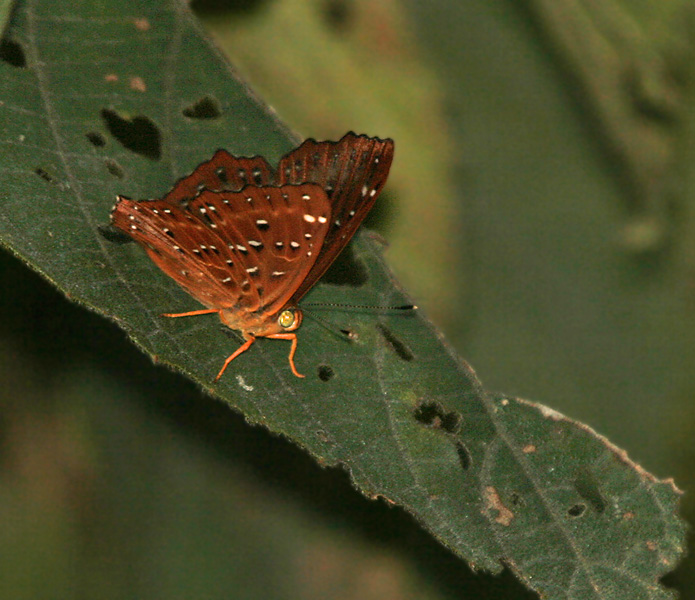 Punchinello Zemeros flegyas at Samsing in Darjeeling district of West Bengal, India.